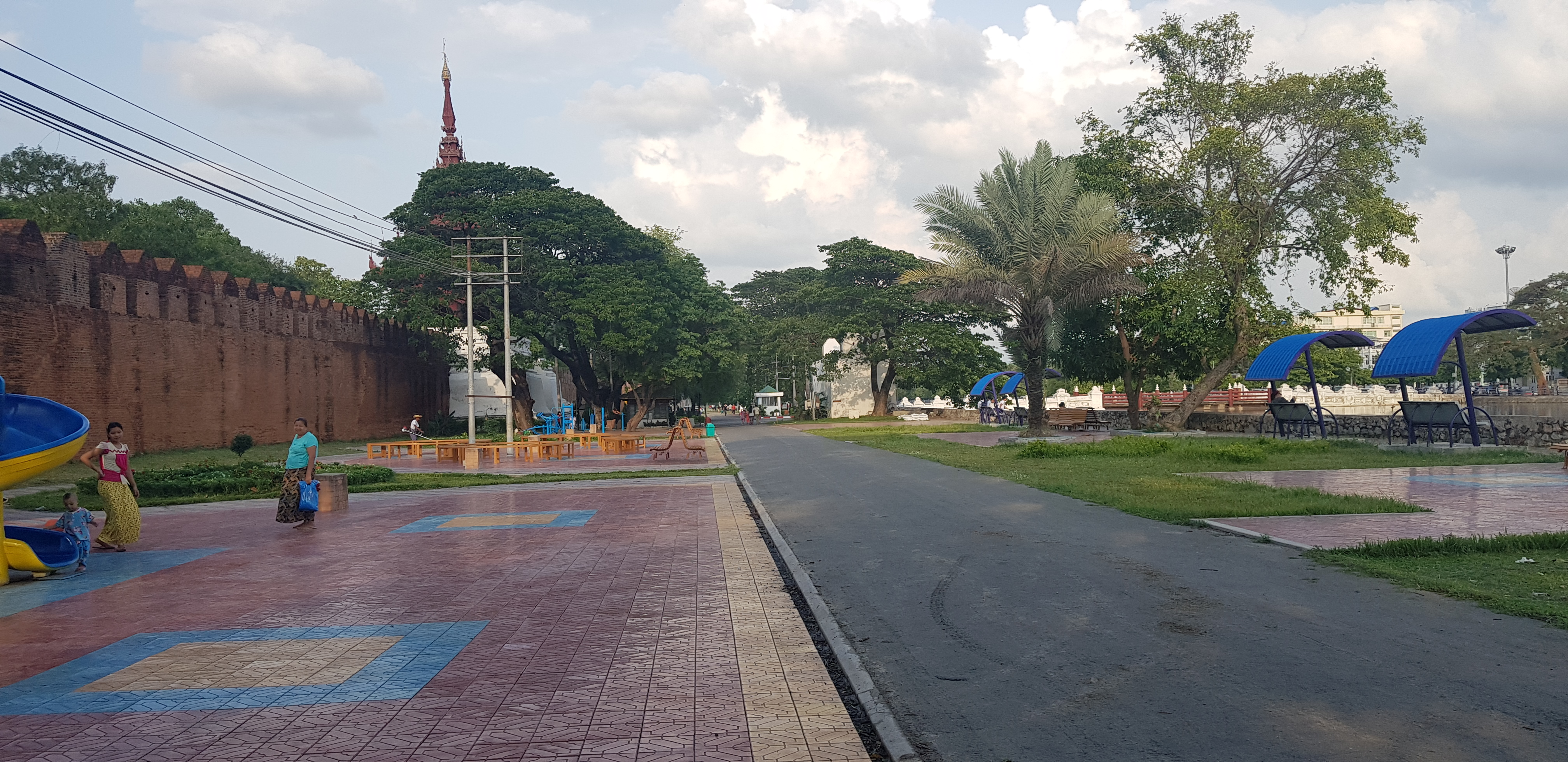 Man Thida Park of Mandalay. မြန်မာဘာသာ: မန္တ​လေးရှိ မန်းသီတာဥယျာဥ်